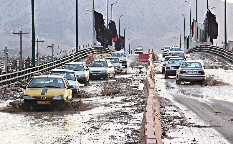 The image shows cars going through mud and debris in the aftermath of the flood in Nov 2015 Ilam.